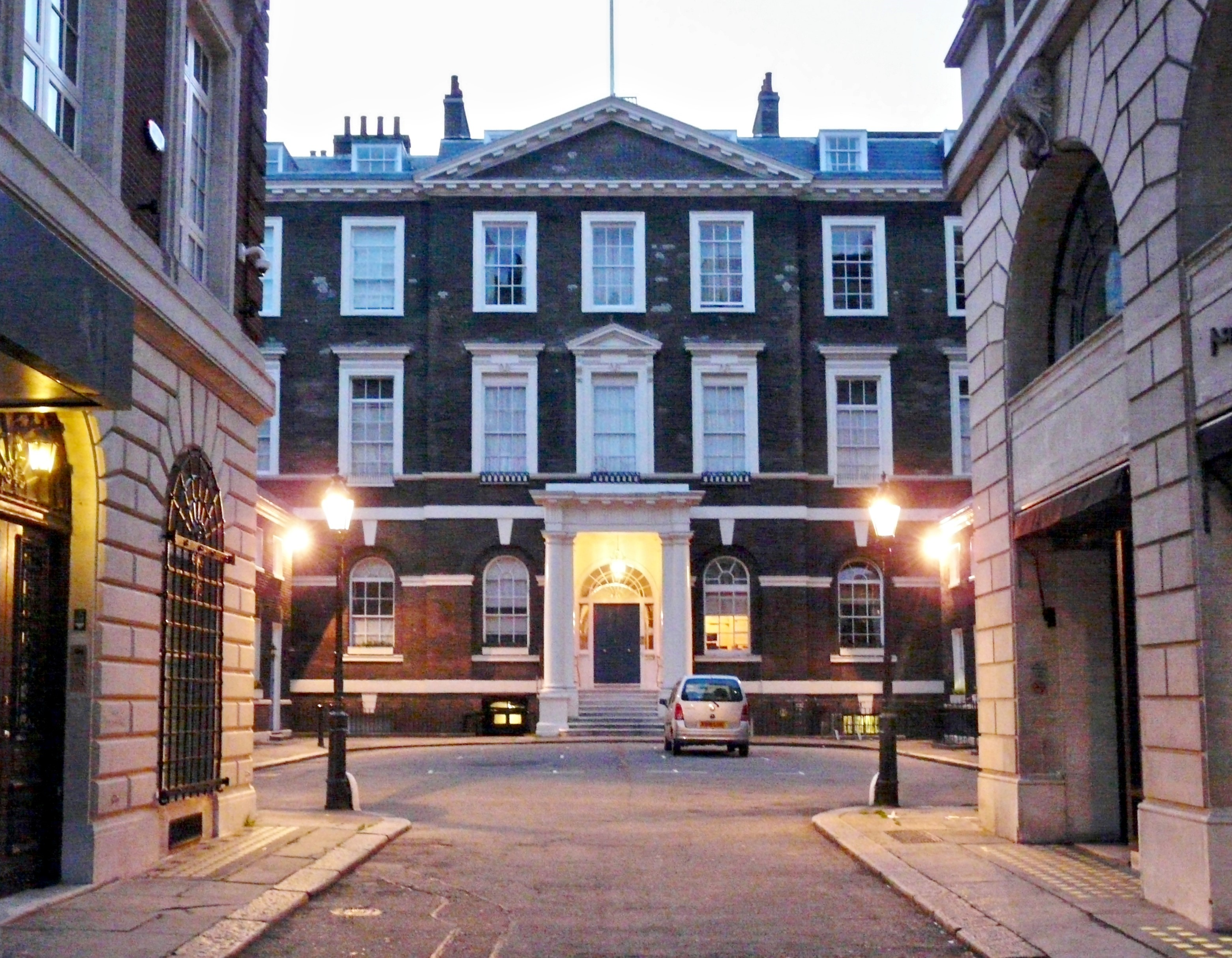 MELBOURNE HOUSE (A1 TO A15) Wikidata has entry Q17527423 with data related to this building.